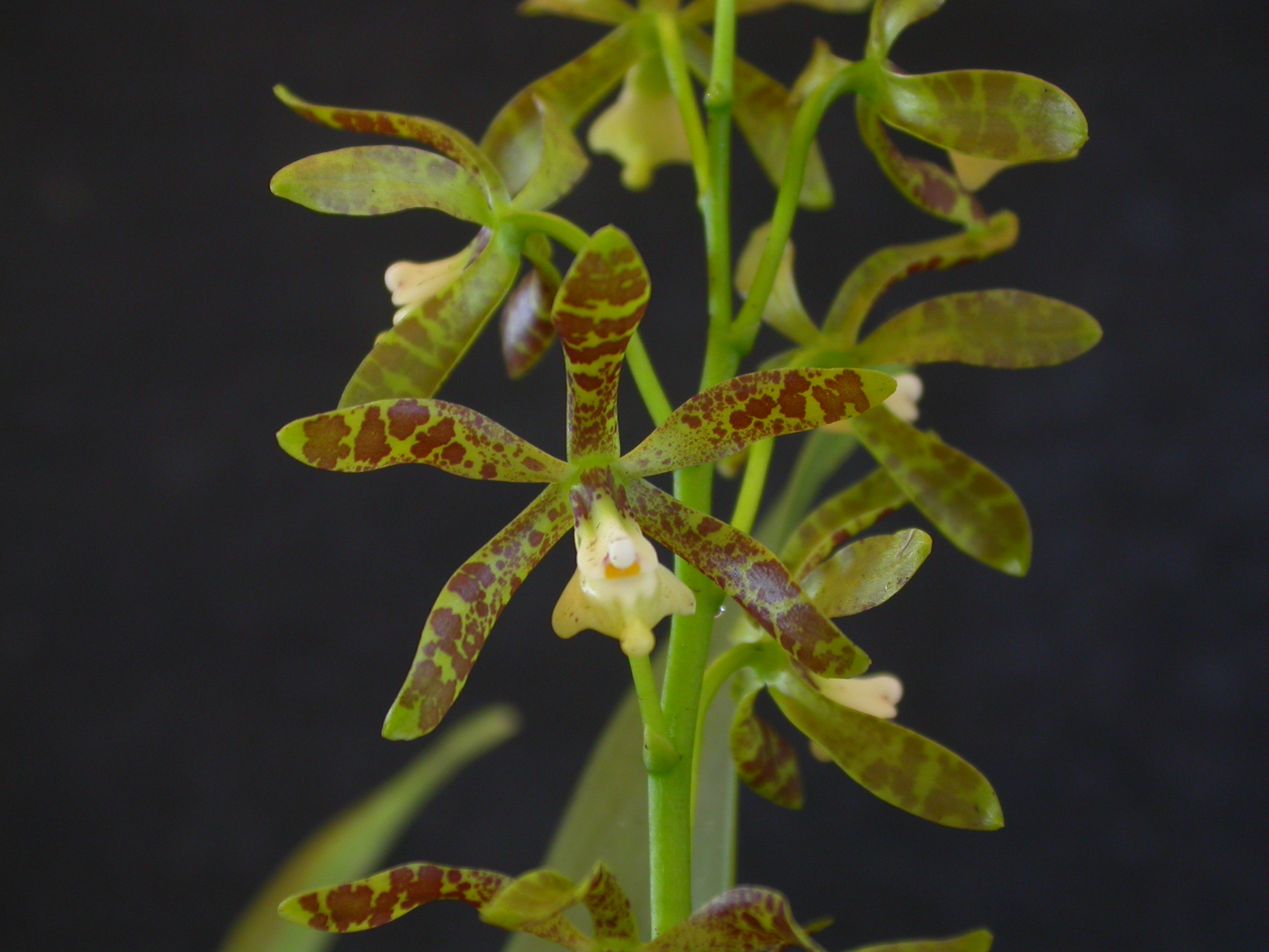 Prosthechea magnispatha same as Pseudencyclia magnispatha